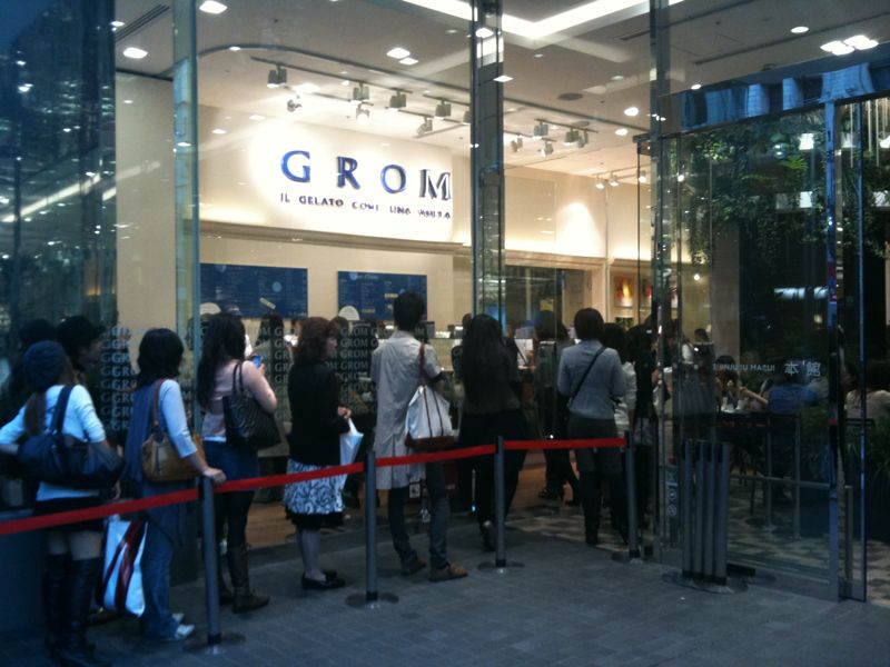 Just passed this place in the recently developed trendy Shinjuku Sanchome area. This Gelato shop seems to be quite popular with a line extending out into the street. Wanted to try it, but kind of scared off by the line. Wonder if it is any good. Would you line up to try food for the first time?